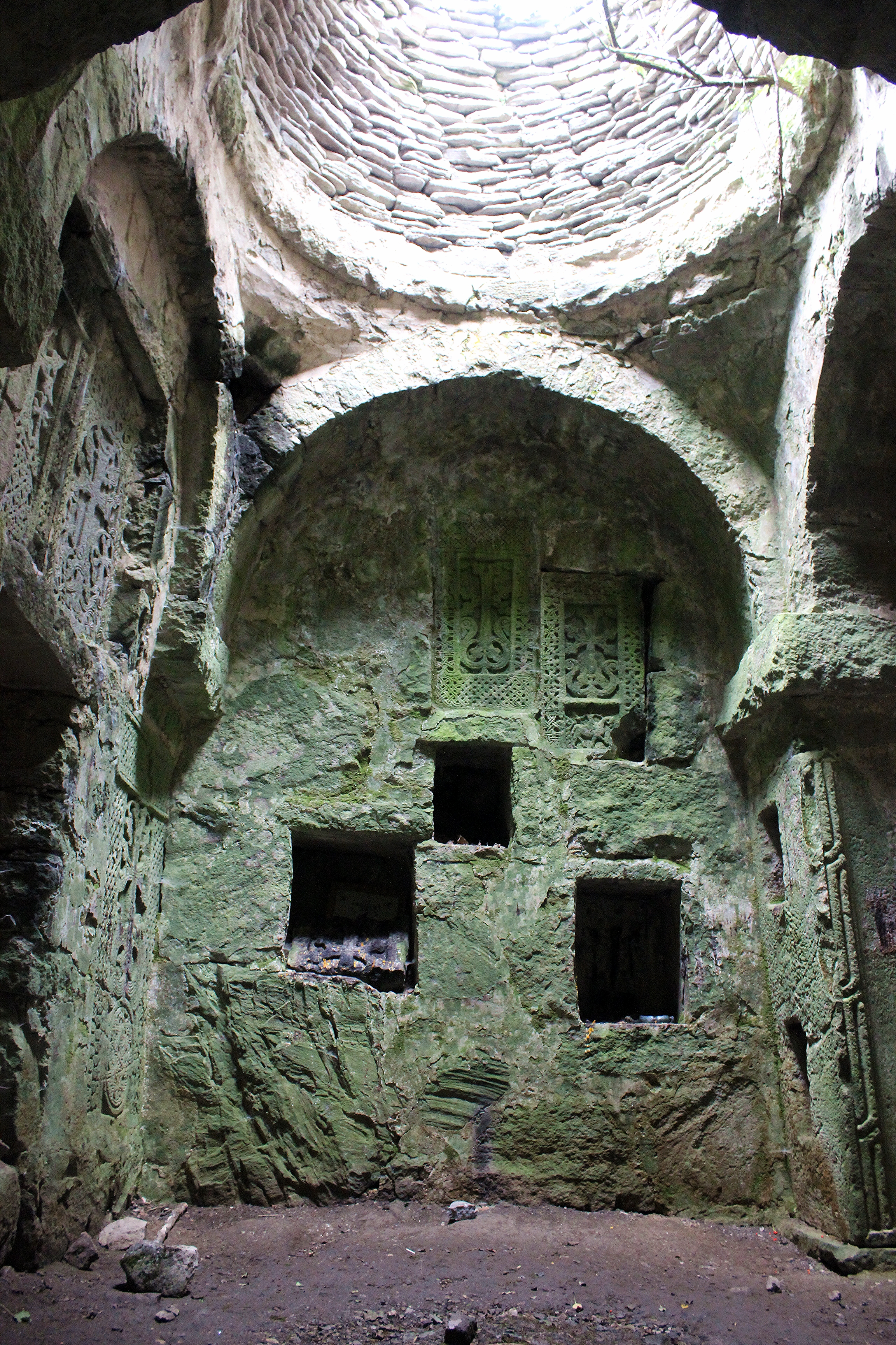 Matosavank Church of Surb Astvatsatsin of Pghndzahank,1247; interior